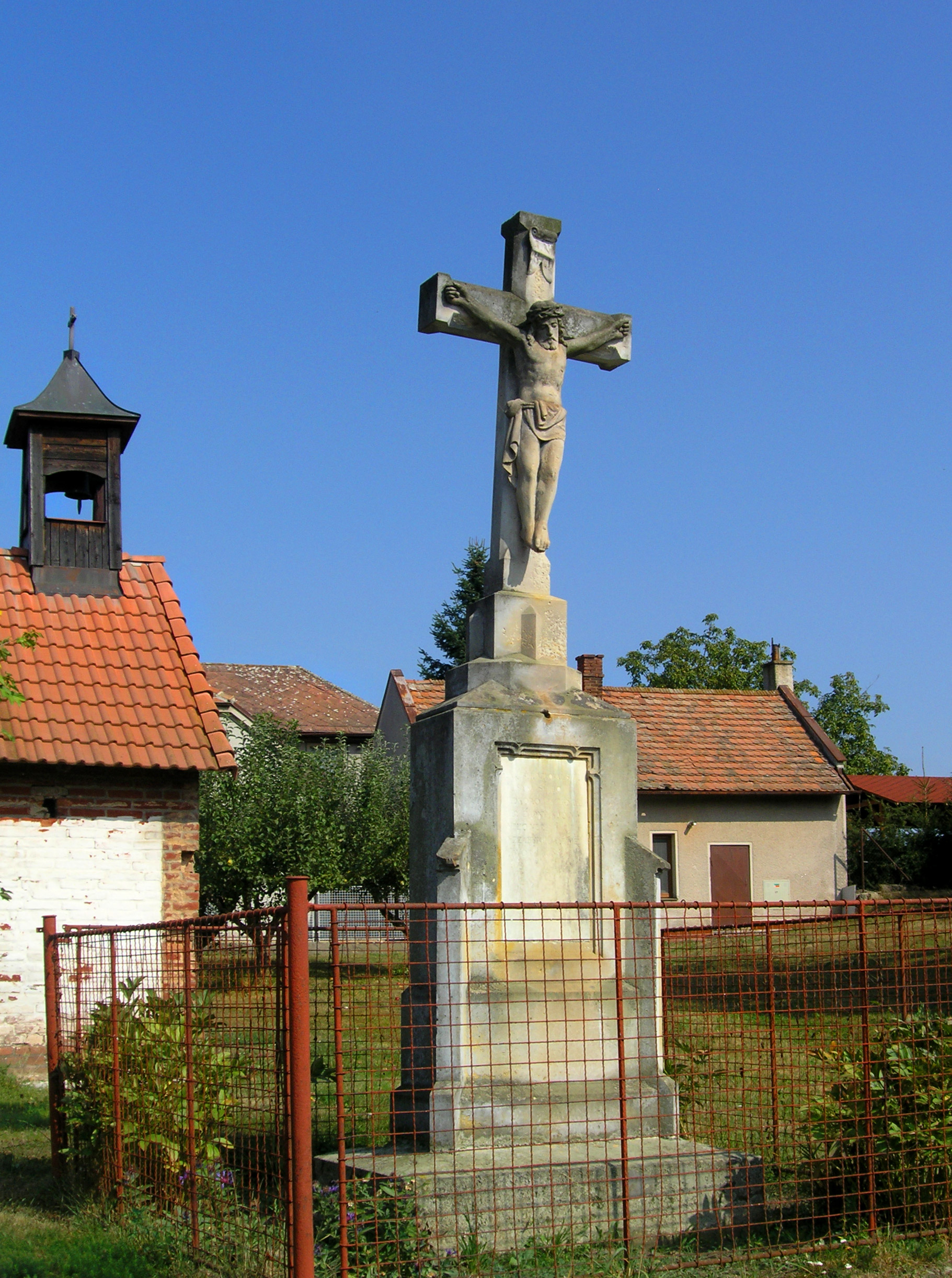 Crucifix in the west part of Radostov, Czech Republic